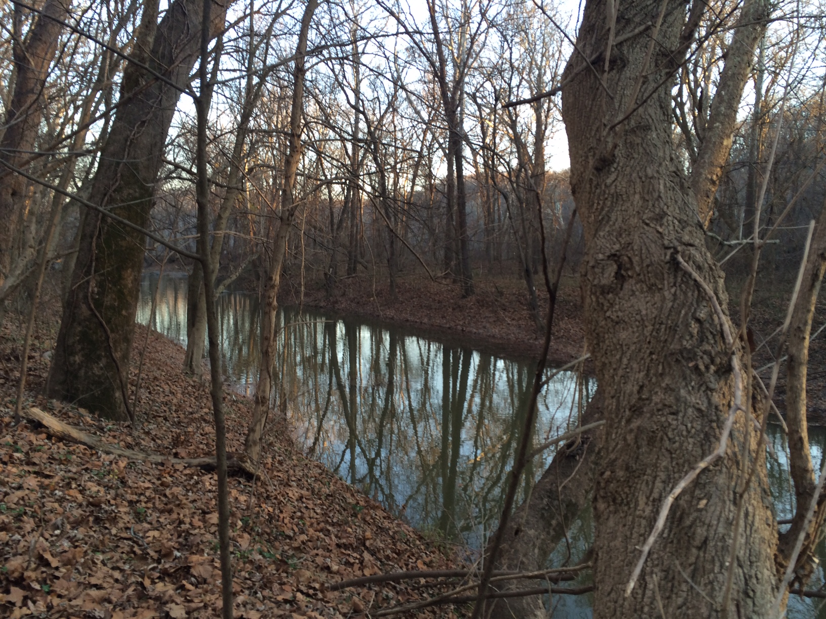 Plummers Island (right) in the Potomac River, from across Rock Run Culvert. Montgomery County, Maryland.